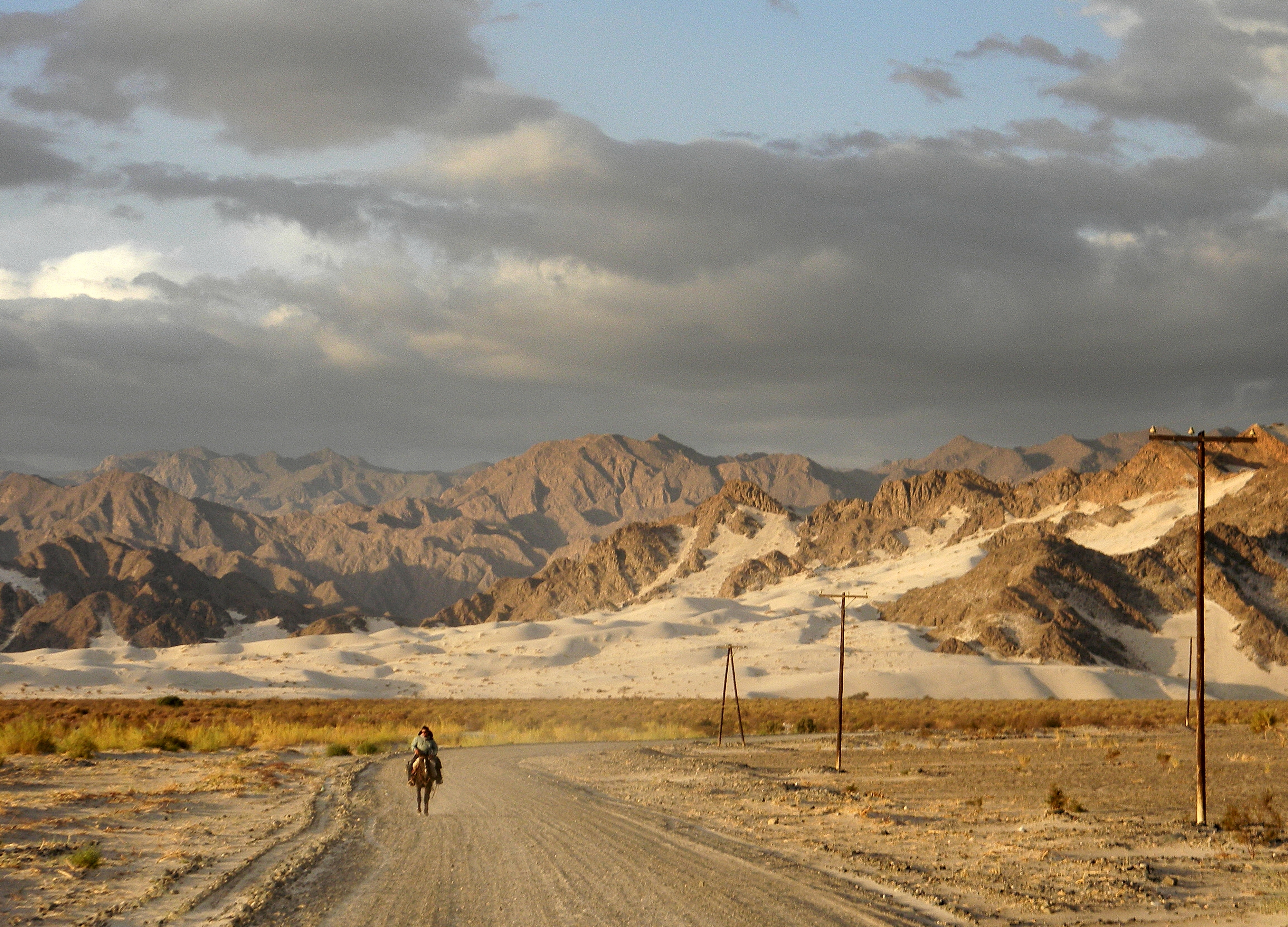 Desert landscape in northern Tinogasta.